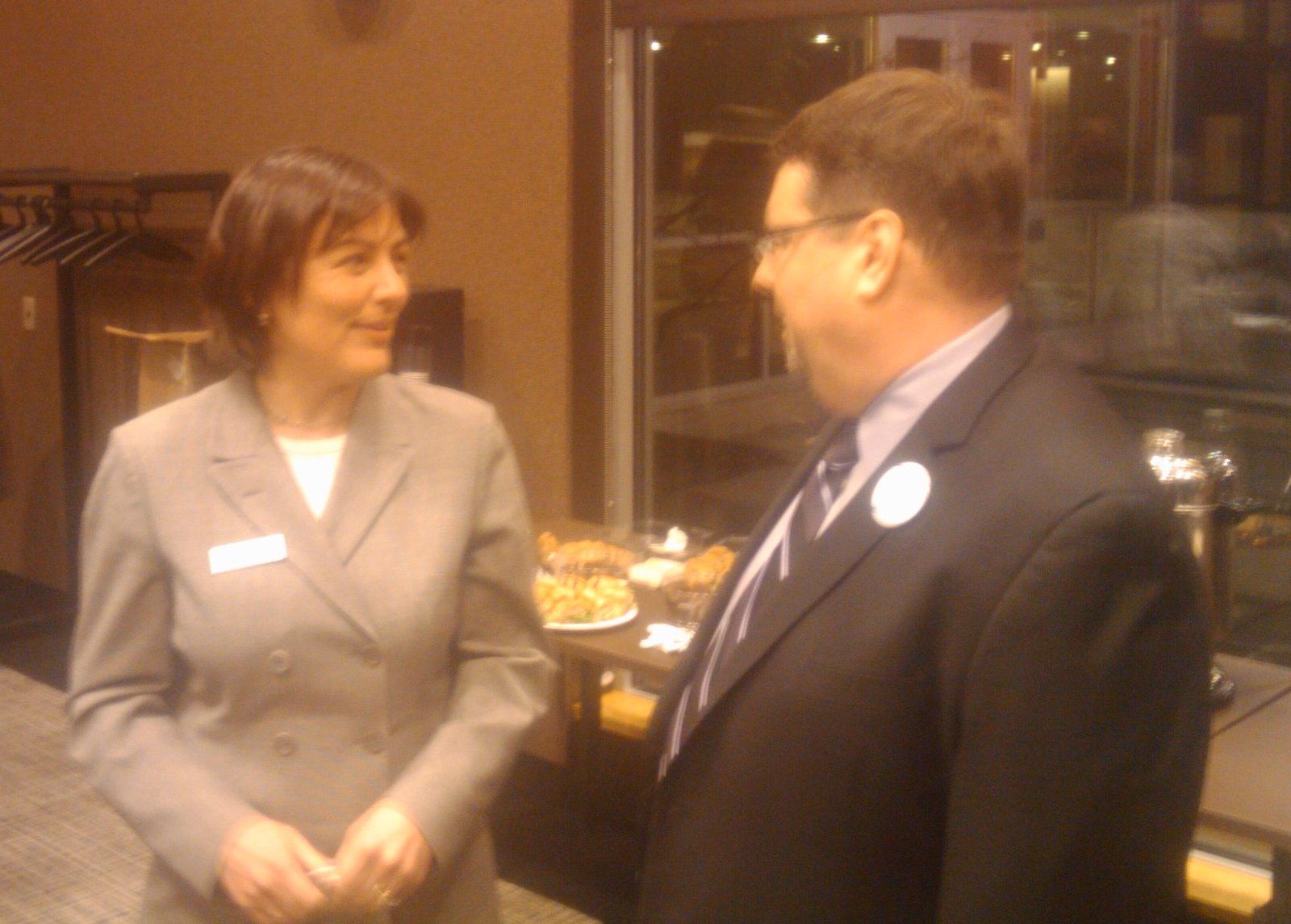 Suzan DelBene, Candidate for Congress and Dean Willard, Candidate for State Representative chatting